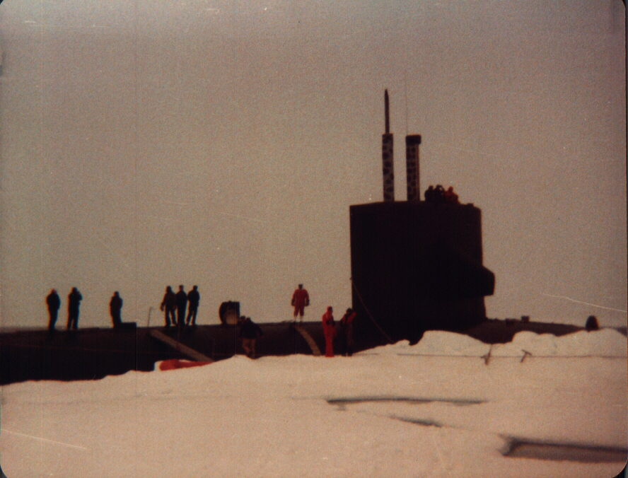 639 surfaced at North Pole